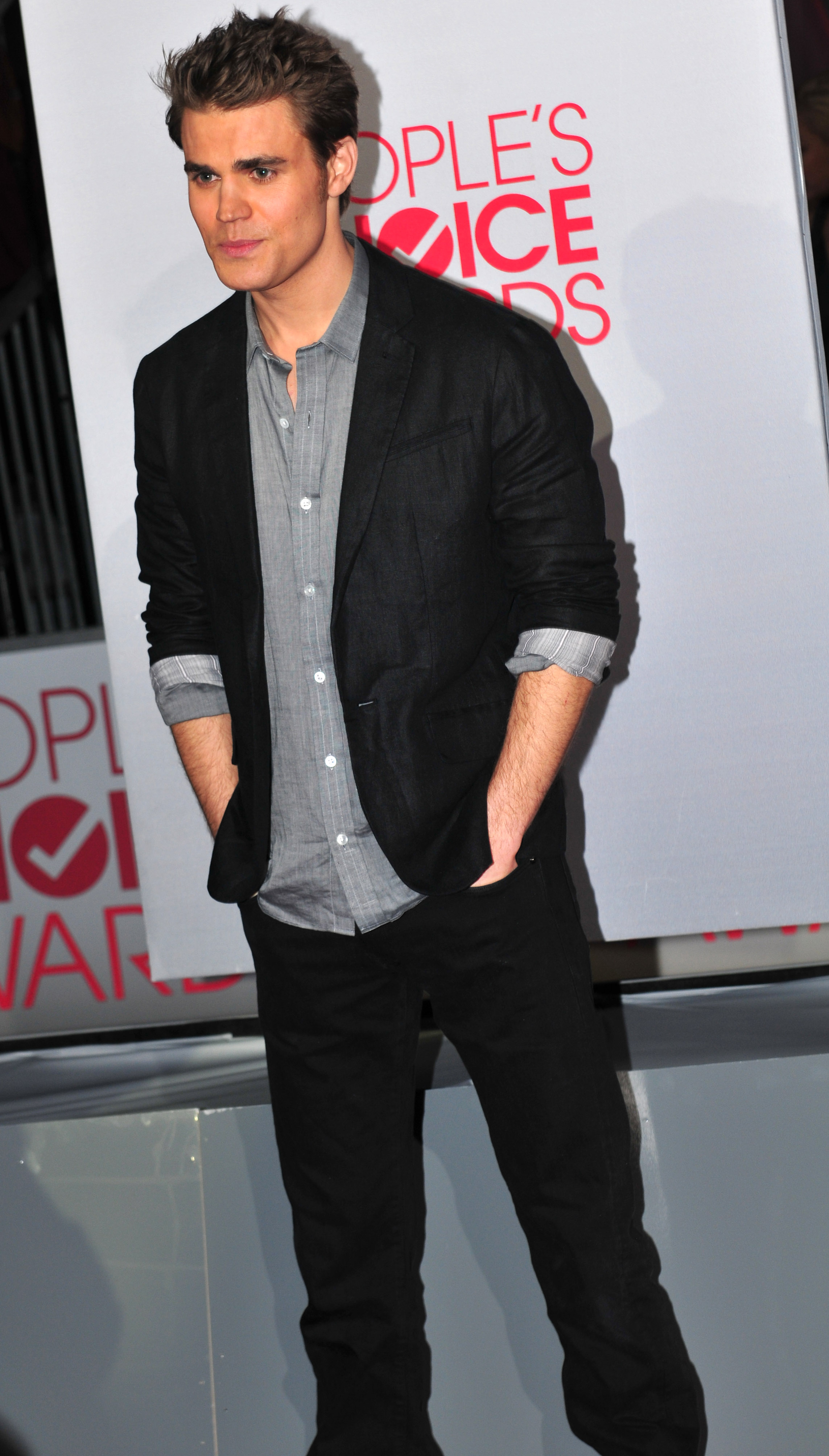 Paul Wesley on the red carpet at the 38th People's Choice Awards on January 11, 2012, at the Nokia Theatre in Los Angeles, California. (JJ Duncan/ )